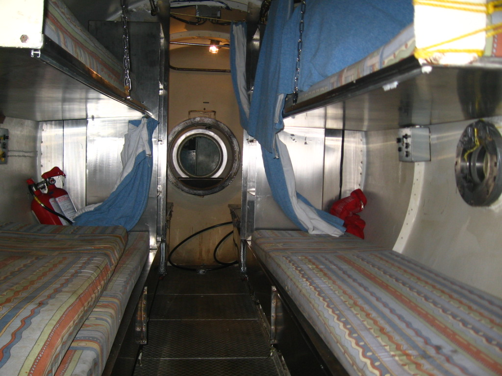 Saturation system living chambers for divers. Up to 6 divers live in these chambers where they stay in a high pressure environment between underwater working shifts. There is a hatch to transfer under pressure into a dry bell which lowers them into the sea to work. Missions continue for up to a month during which time the divers continuously live under pressure.